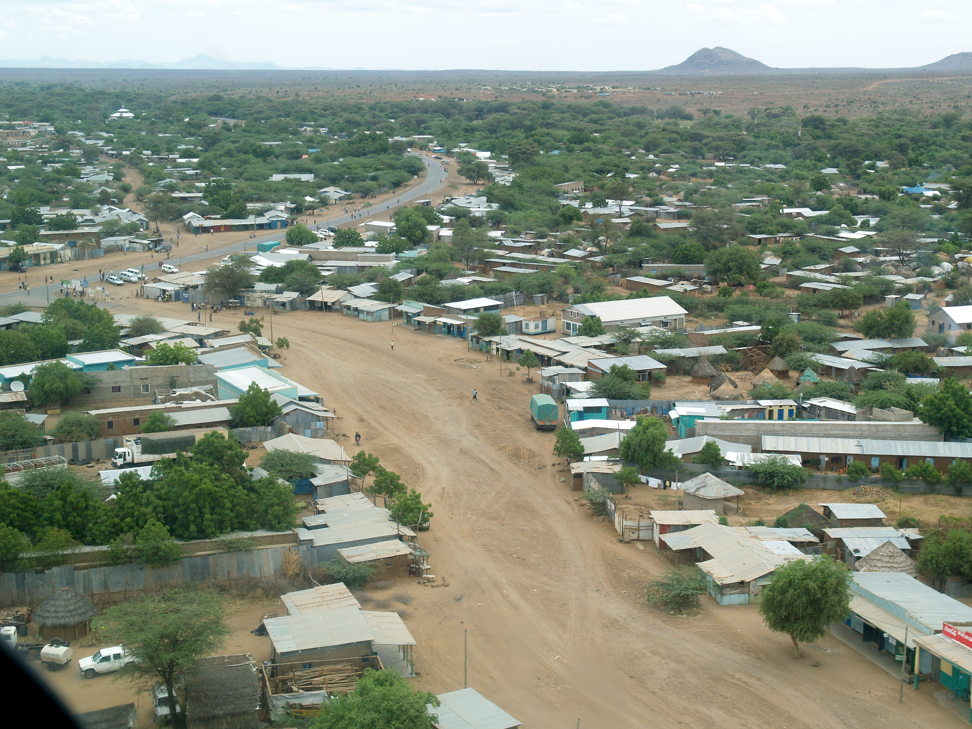 Aerial view of Lokichoggio, final approach, view to the north-west